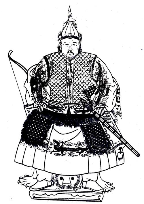 A governor of a province during the Ming Dynasty dressed in military atair including his sword, bow and quiver.